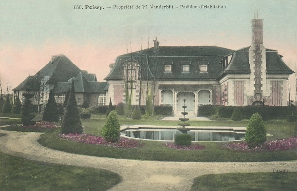 Chateau Vanderbilt in Carrieres-sous-Poissy, France